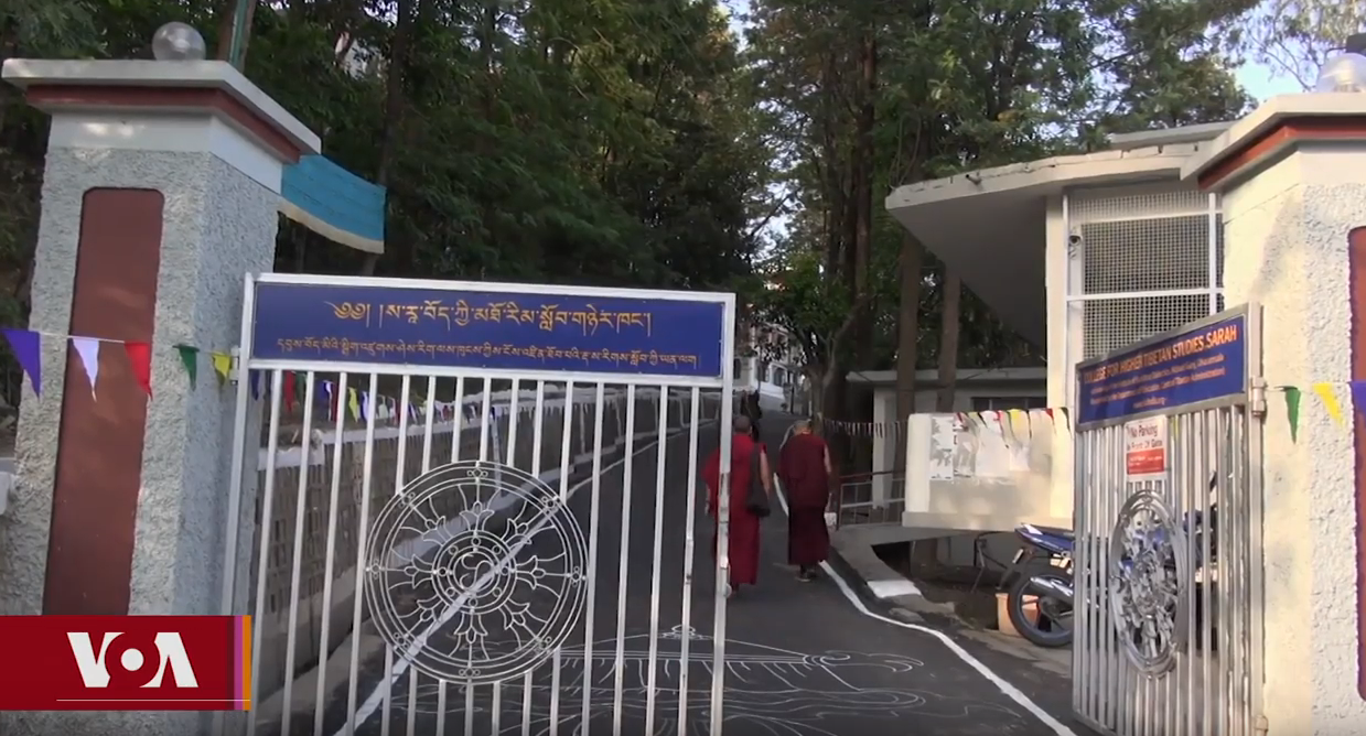 College for Higher Tibetan Studies, Sarah